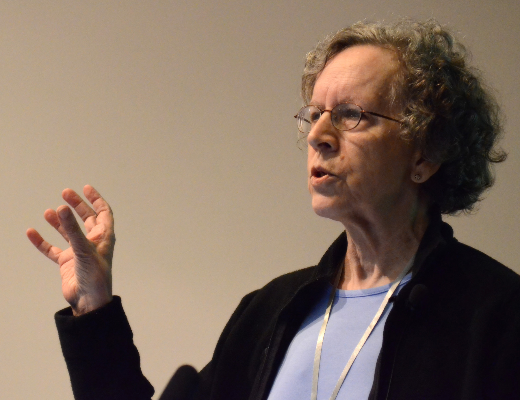 Harriet Hall, speaking at the Australian Skeptics National Convention, Melbourne 2016